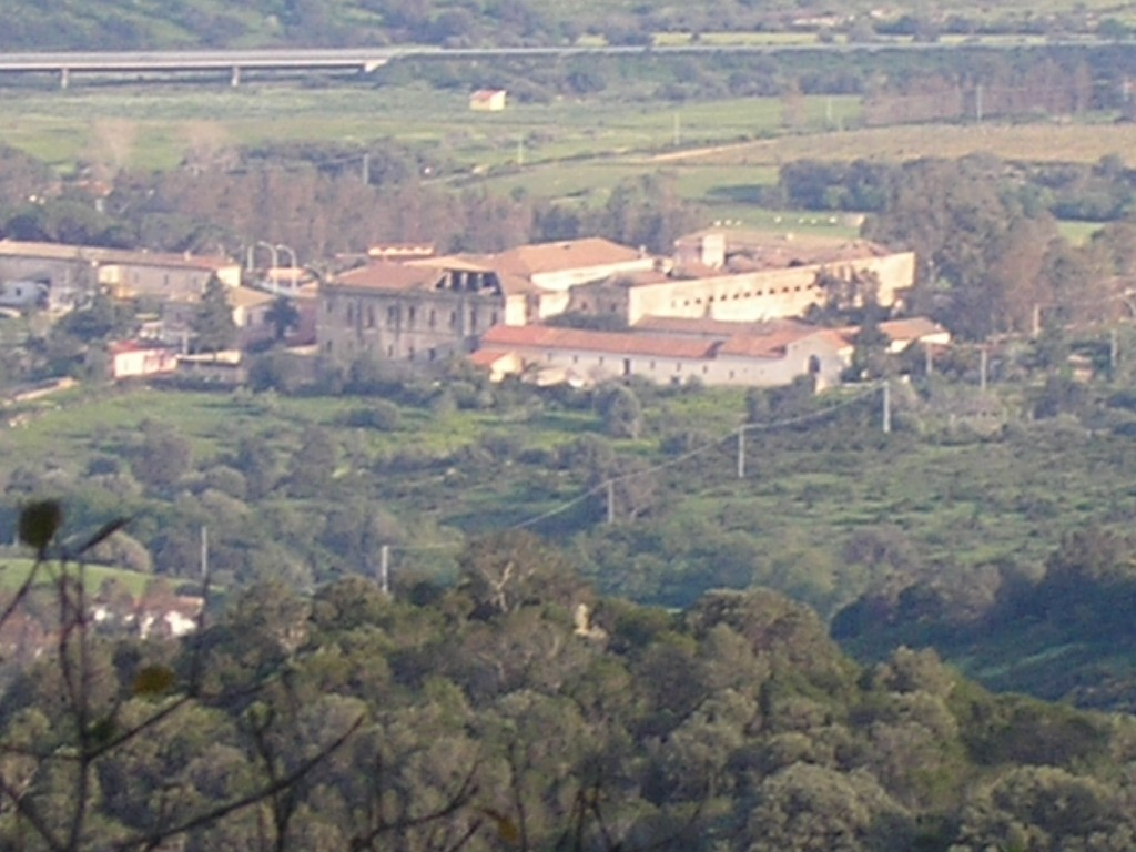 View of Castiadas from the hills near monte Arbu, in Sardinia, Italy. The big building in the middle is the former prison, closed in 1952 and now museum